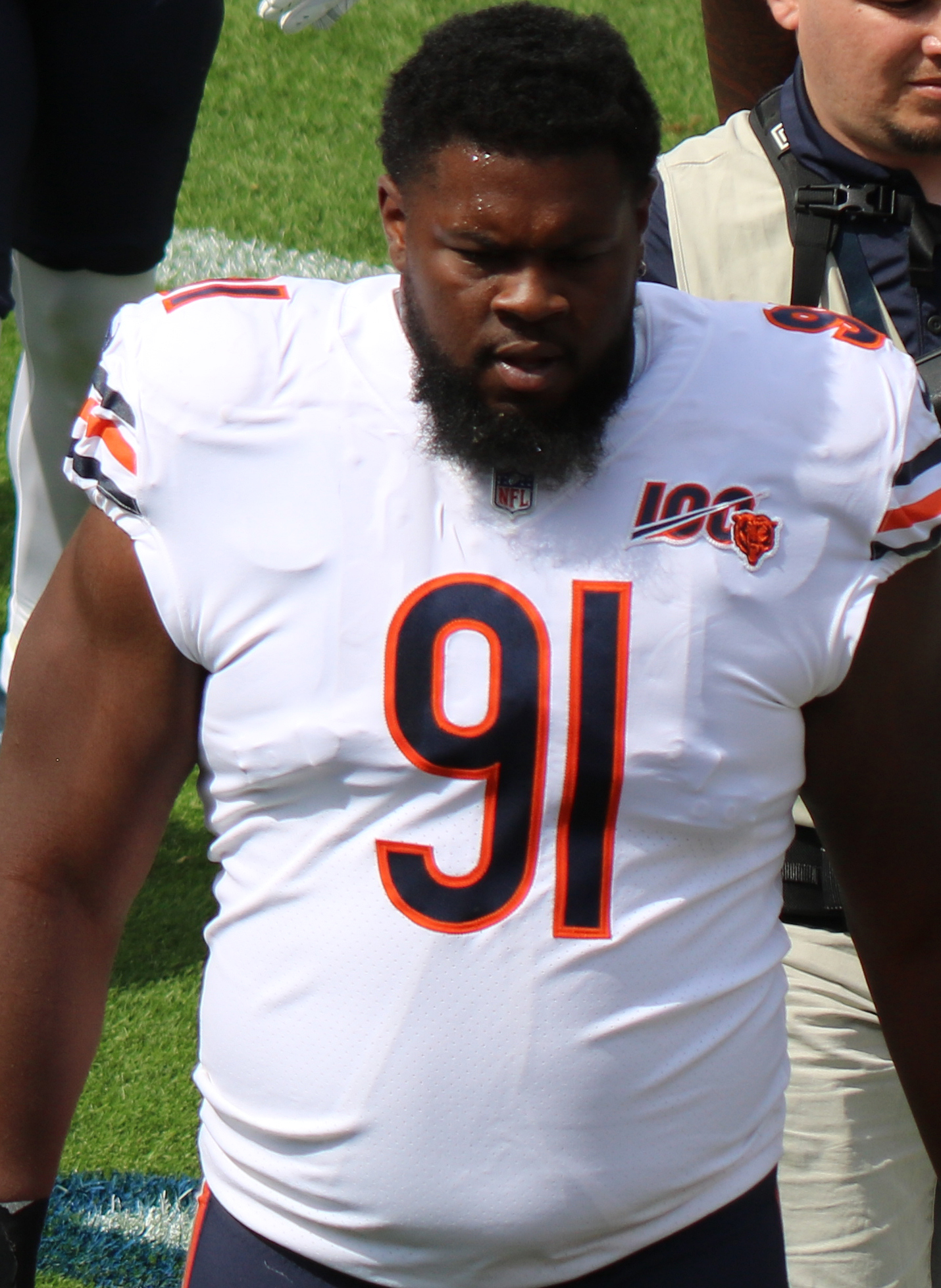 Eddie Goldman, a National Football League player.